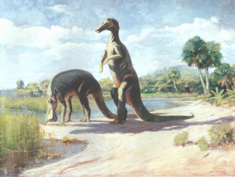 Early 20th century artistic life restorations of the Edmontosaurus annectens skeletal mounts on exhibit at the AMNH (also referred to Trachodon mirabilis, Hadrosaurus mirabilis or Anatotitan copei, among other obsolete binomial names). When Charles R. Knight produced that painting in 1909, he titled his work with the genus name that was in use at the time: Trachodon. Currently these specimens (AMNH 5730 and AMNH 5886) are classified as large Edmontosaurus annectens.